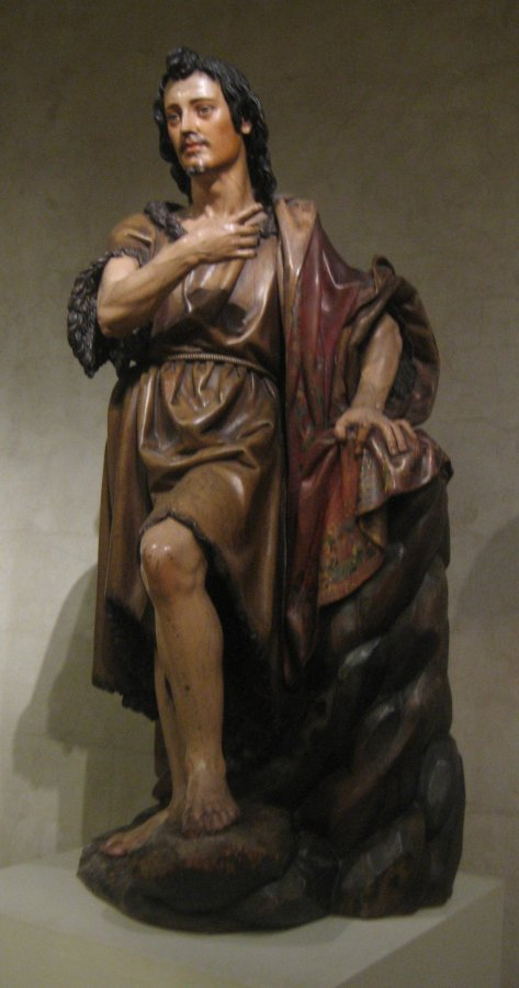 'Saint John the Baptist', painted and gilded wood statue by Juan Martínez Montañés, Spanish, 1st third of 17th century, Metropolitan Museum of Art